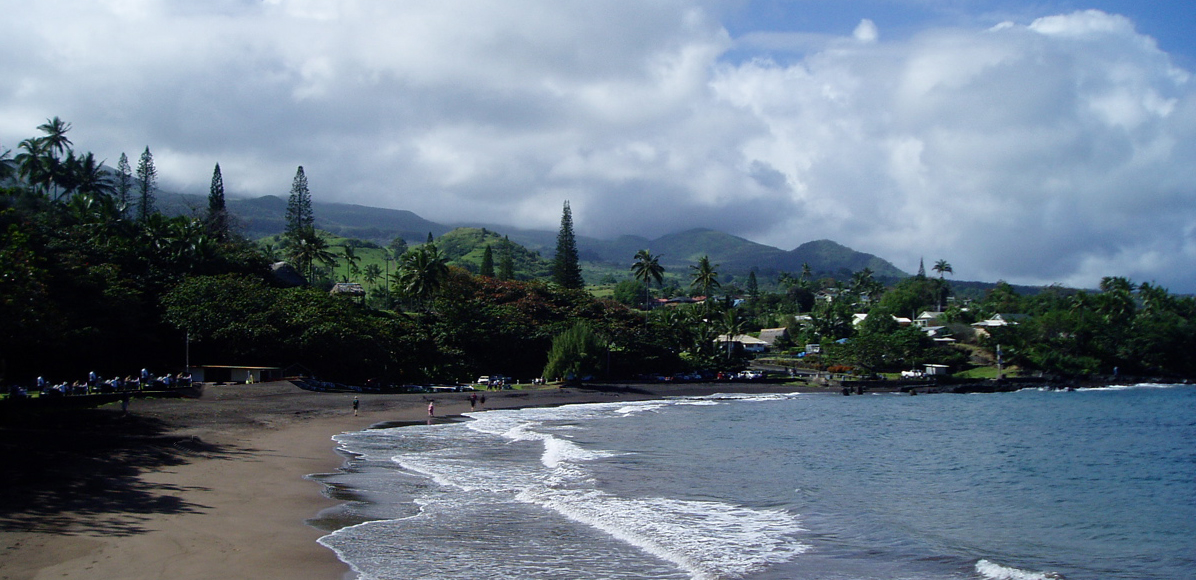 Photo of Hana Beach Park, Hana, Hawaii